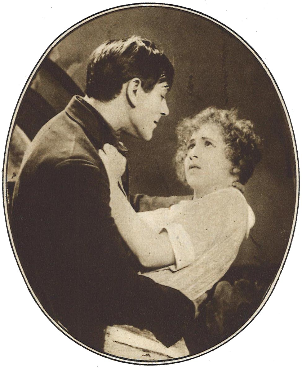 Swedish actors Edvin Adolphson and Edit Rolf in the Swedish 1925 film Flygande holländaren.